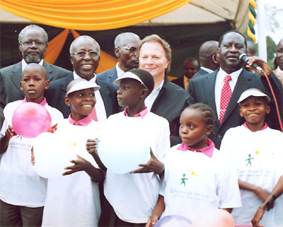 Paul Norman with Prime Minister Raila Odinga and Minister for Education Sam Ongeri at the SFK launch event in Nairobi.